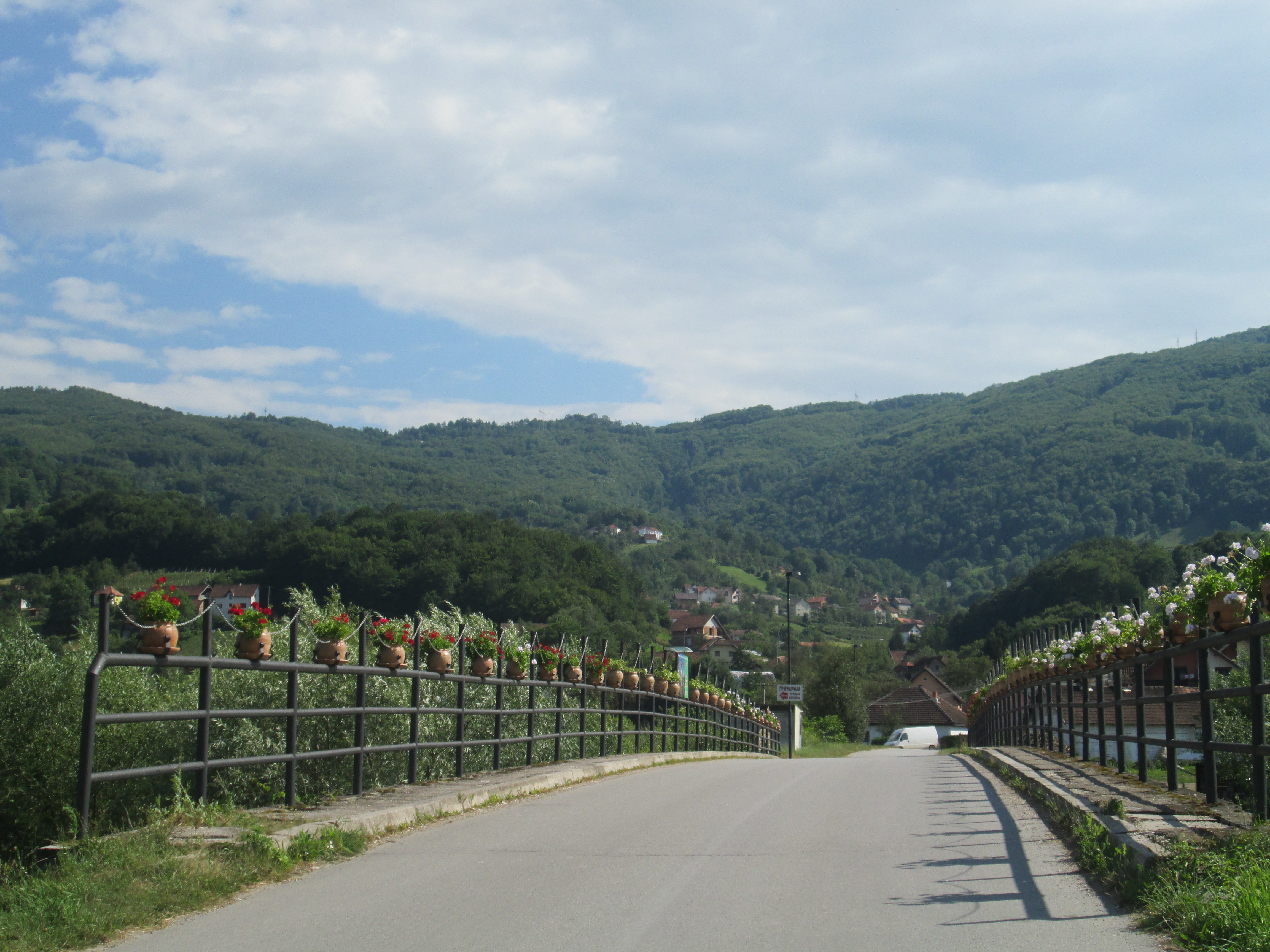 View over the bridge, Zlakusa Српски (ћирилица): Поглед преко моста, Злакуса